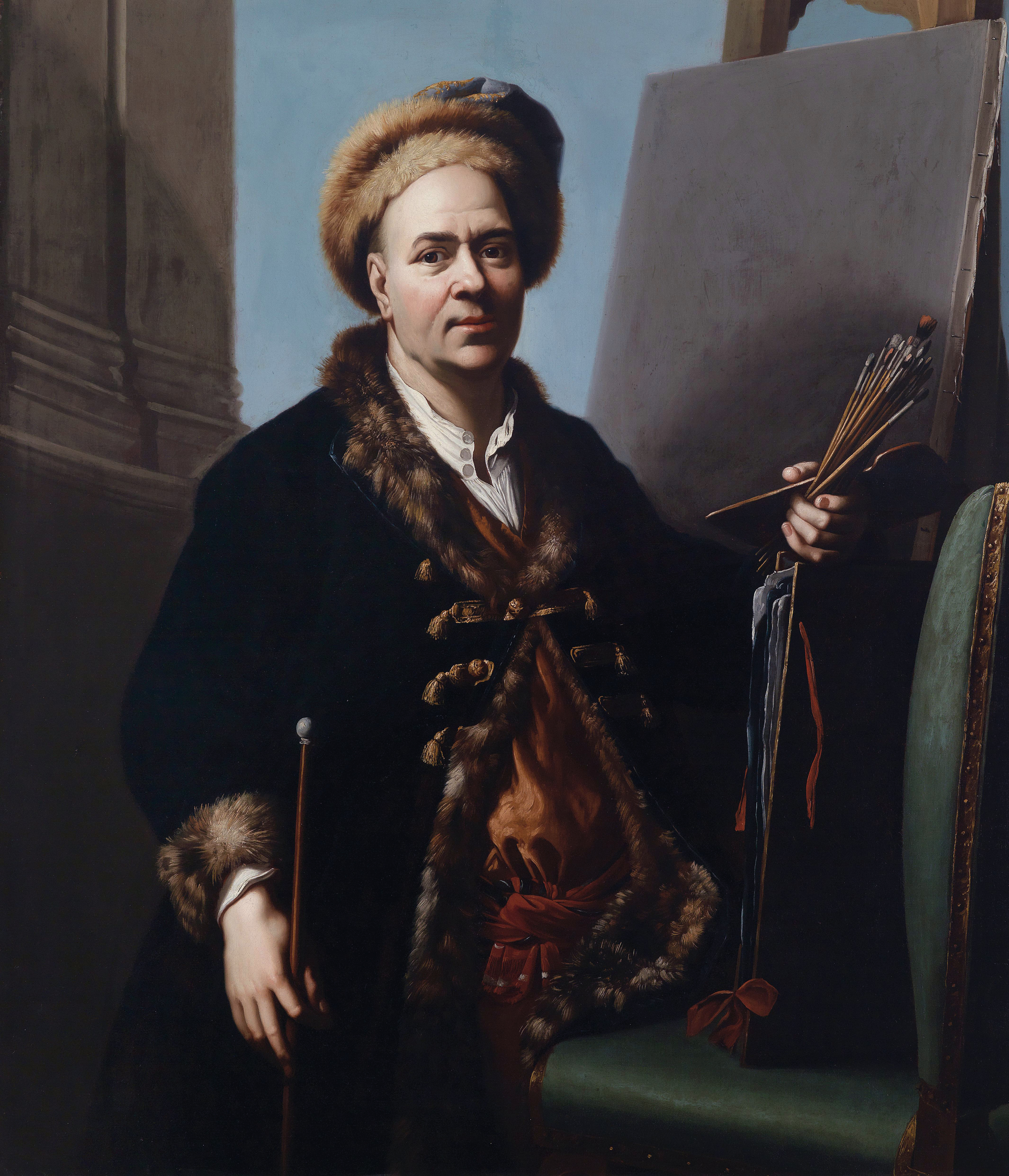 Self-portrait oil on canvas 147.8 x 113.5 cm